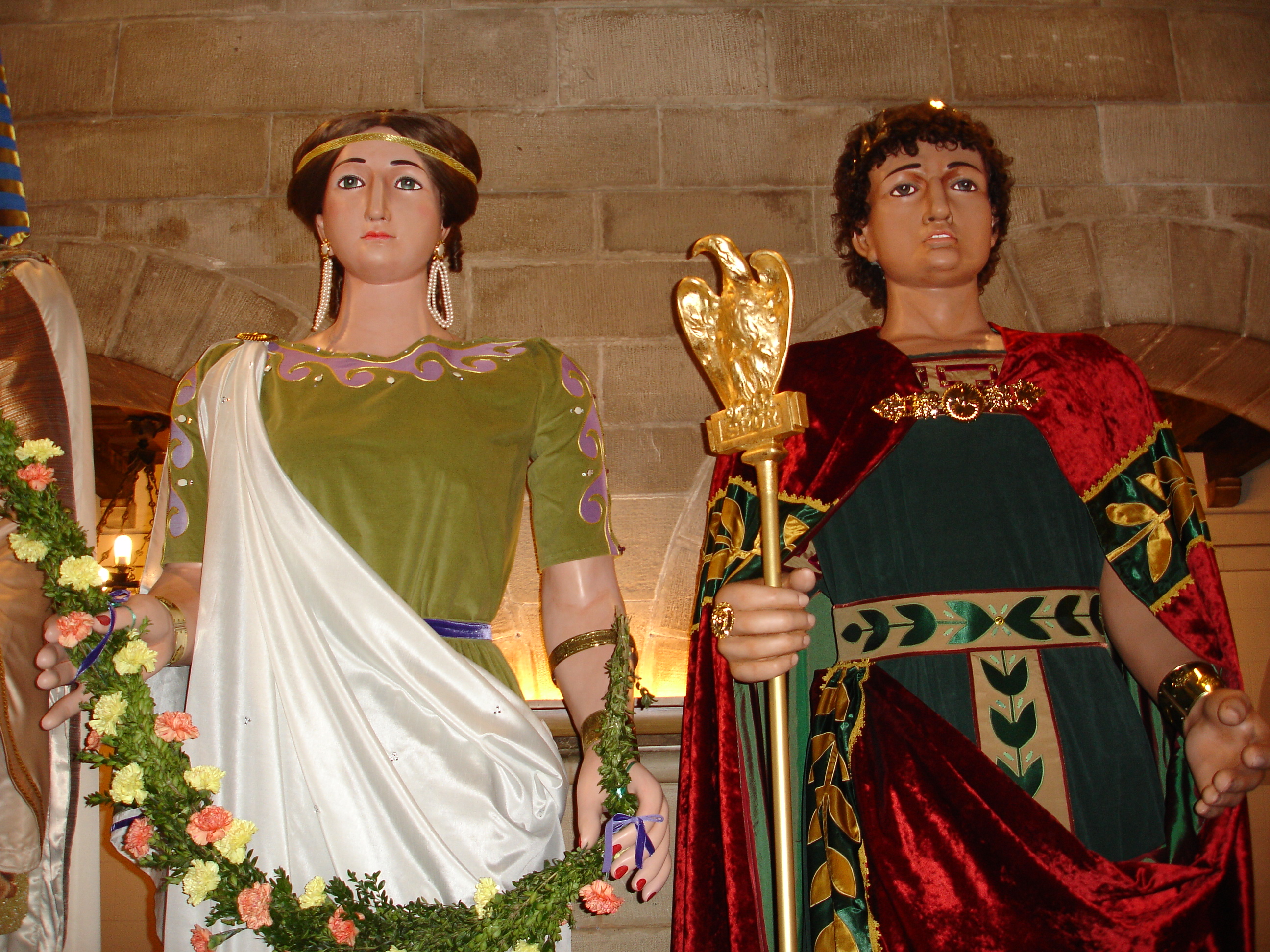 Roman Giants of Lleida (Catalonia, Spain), dating 1840